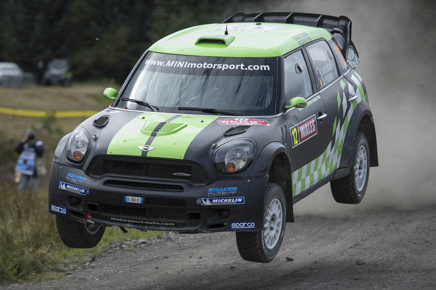 Wales Rally Great Britain 2012 Christopher Atkinson,Mini John Cooper Works WRC,Motorsport,Qualifying,Rally,Rallye,Stephane Prevot,WRC,WRC Team Mini Portugal,Wales Rally GB,Walters Arena